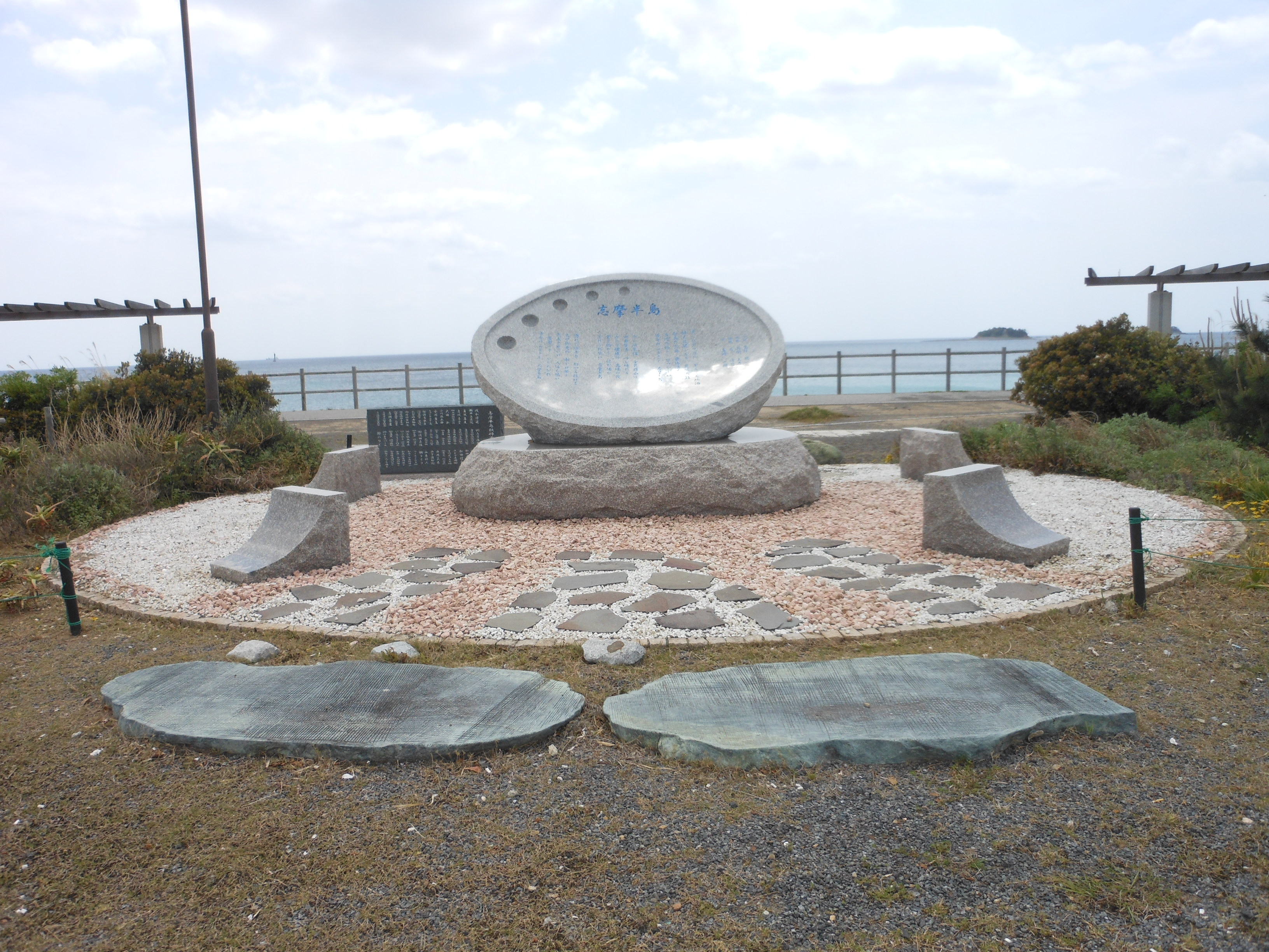 Stone monument of Ichiro Toba's popular song.